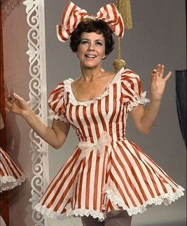 Sickan Carlsson during rehearsals December 29, 1968, probably in Kar de Mumma-revue at Folkan in Stockholm.